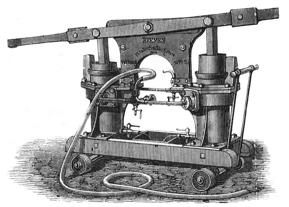 no caption